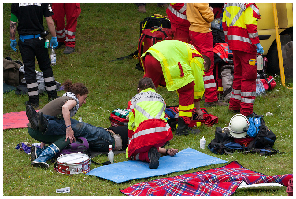 Blockupy 2013: Street medics caring for injured activists